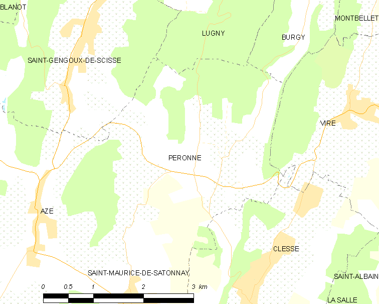 Map of French municipality